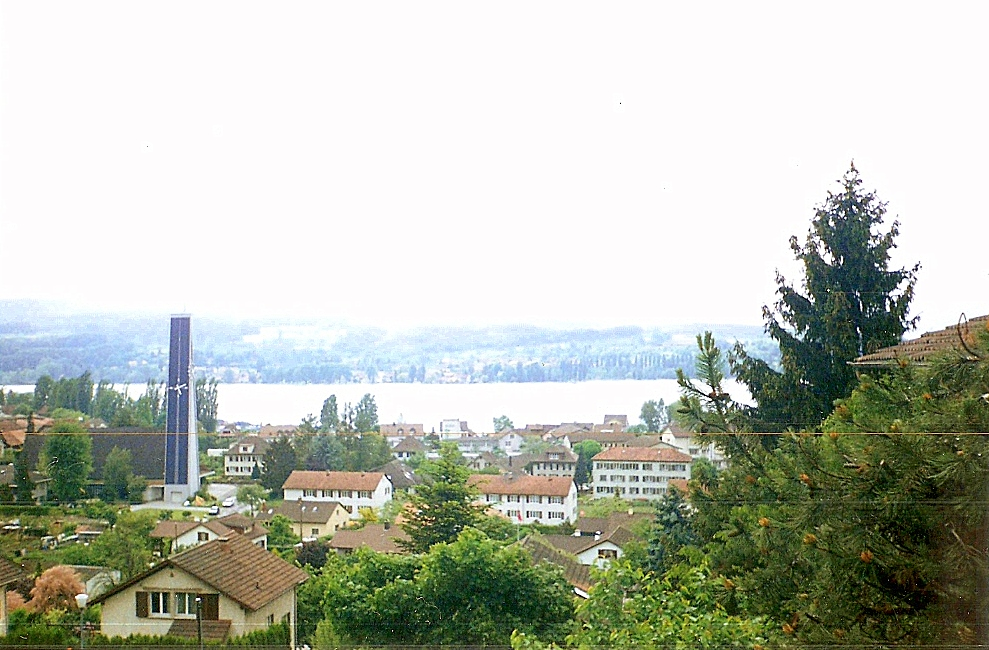 Steckborn (CH) spring 1999